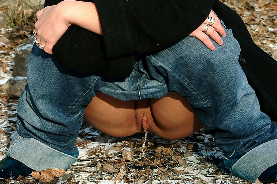 Woman peeing on the ground